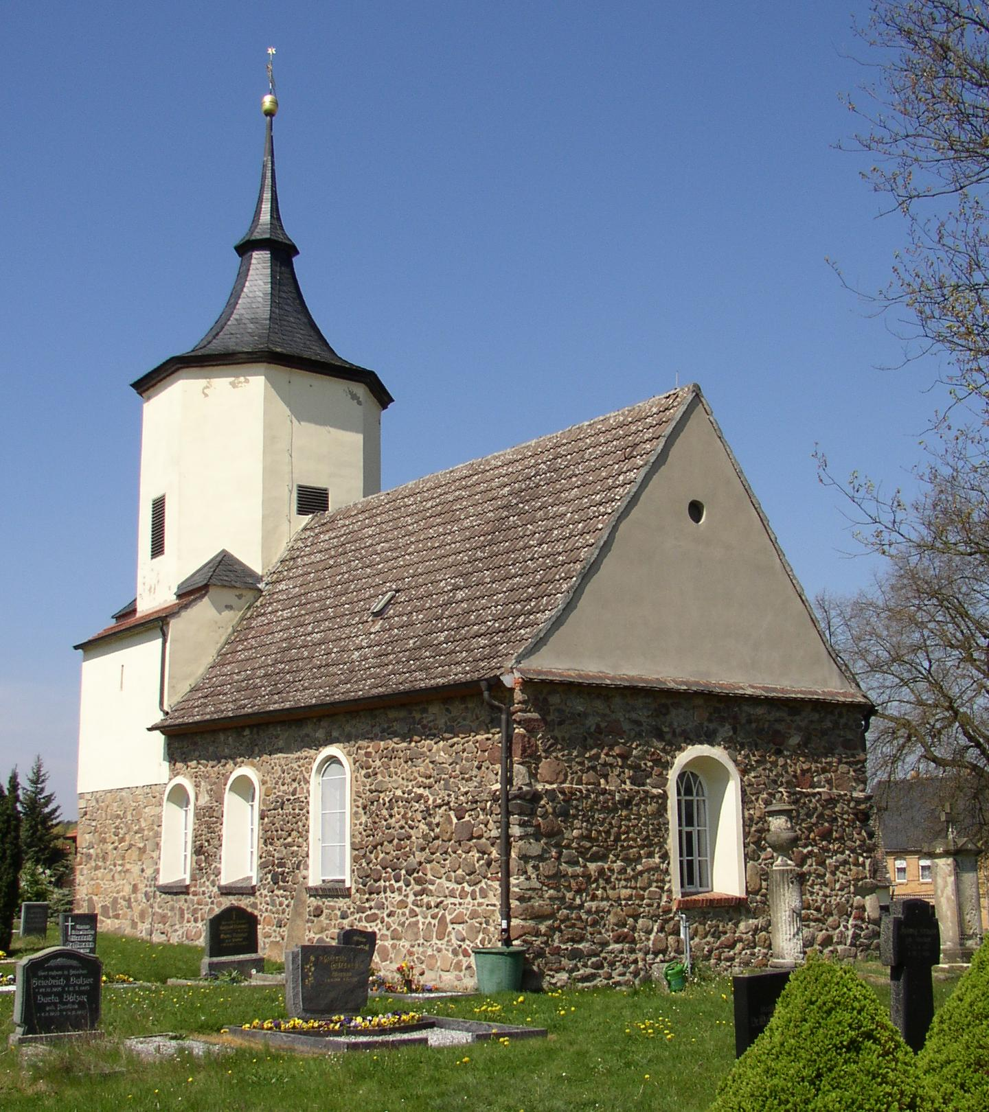 Church in Laußig-Durchwehna in Saxony, Germany